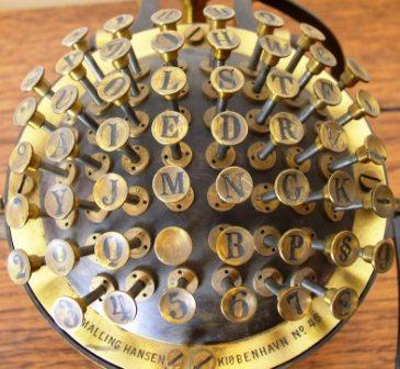 The keyboard of the Malling-Hansen writing ball, invented in 1865 by Danish churchman Rev. Rasmus Malling-Hansen and first produced in 1870. It was the first commercially produced typewriter. Although as in many early typewriters, the page is not visible as it is being typed, as late as 1909 the writing ball was still being used in European business offices.